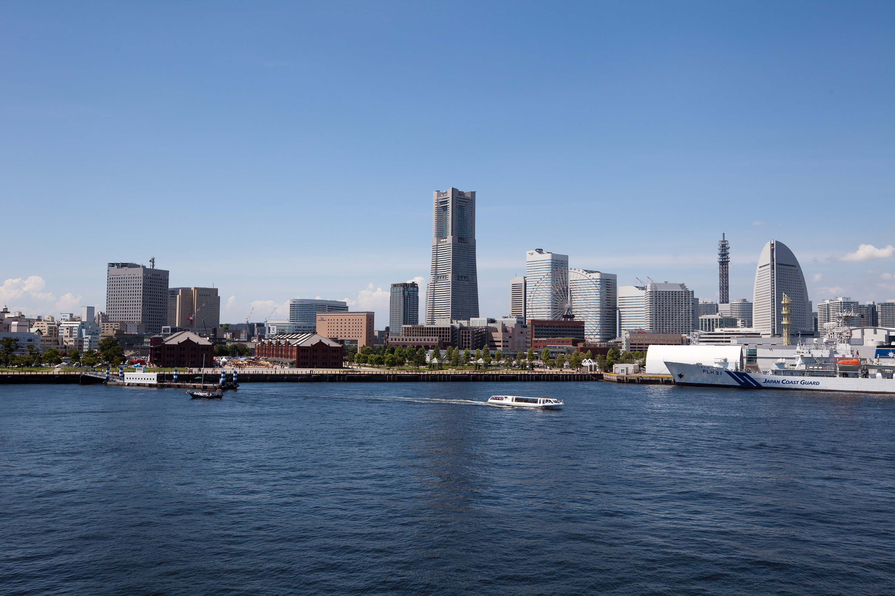 Minato Mirai 21